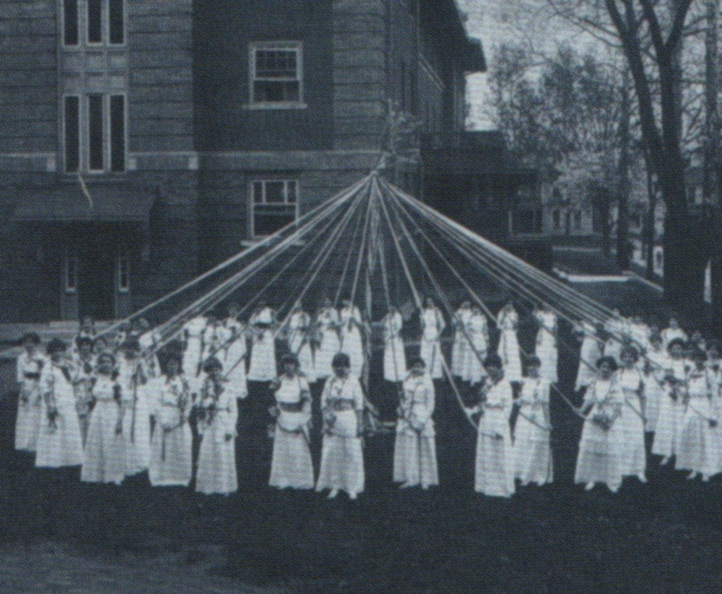 Women at Ohio University in the early 1900s performing a Maypole dance as a rite of Spring, by a queen and attendants, on the College Green